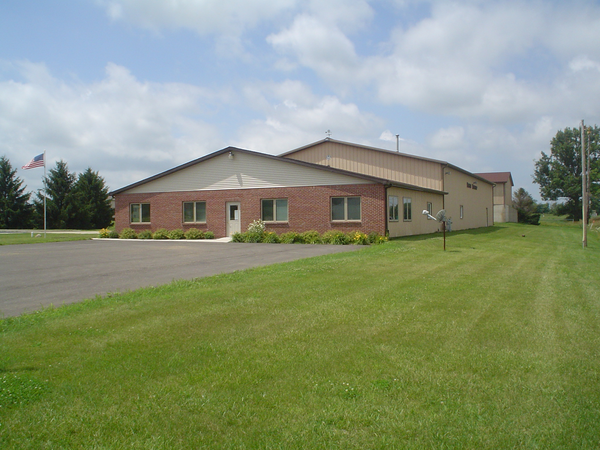 Marion Township Building located in Stillman Valley, Illinois, USA.